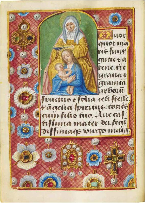 Imhof prayer book f331v, St Anna with Mary en Child